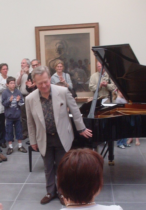 Picture of Claude Coppens bowing after a concert in the Museum of Fine Arts in Ghent